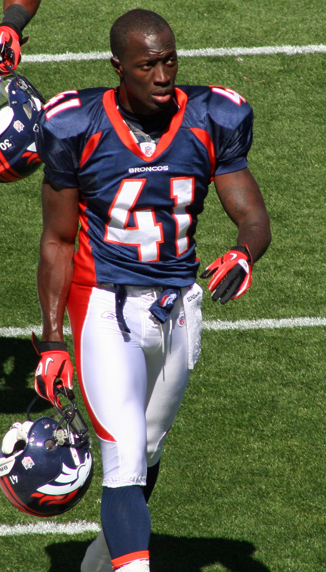 Cassius Vaughn, a player on the Denver Broncos American football team.